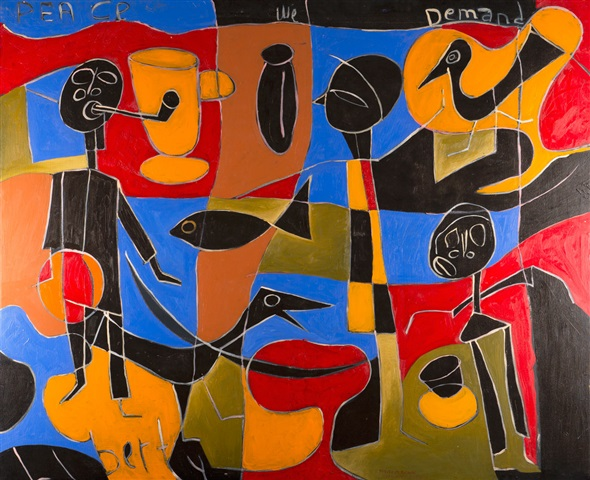 'Legacy of democracy' painted in 2014. Sold at Circle Art Agency auction in Nairobi 2014